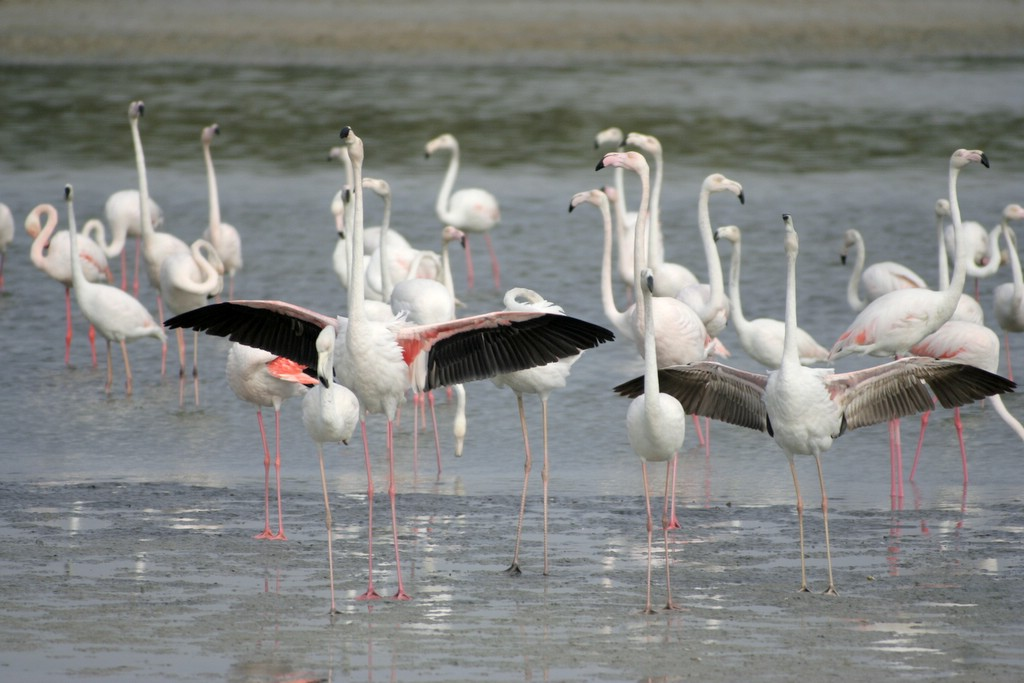 Male Greater Flamingo in performing mating rituals, at the Rasal khore wildlife sanctuary, Dubai, United Arab Emirates.